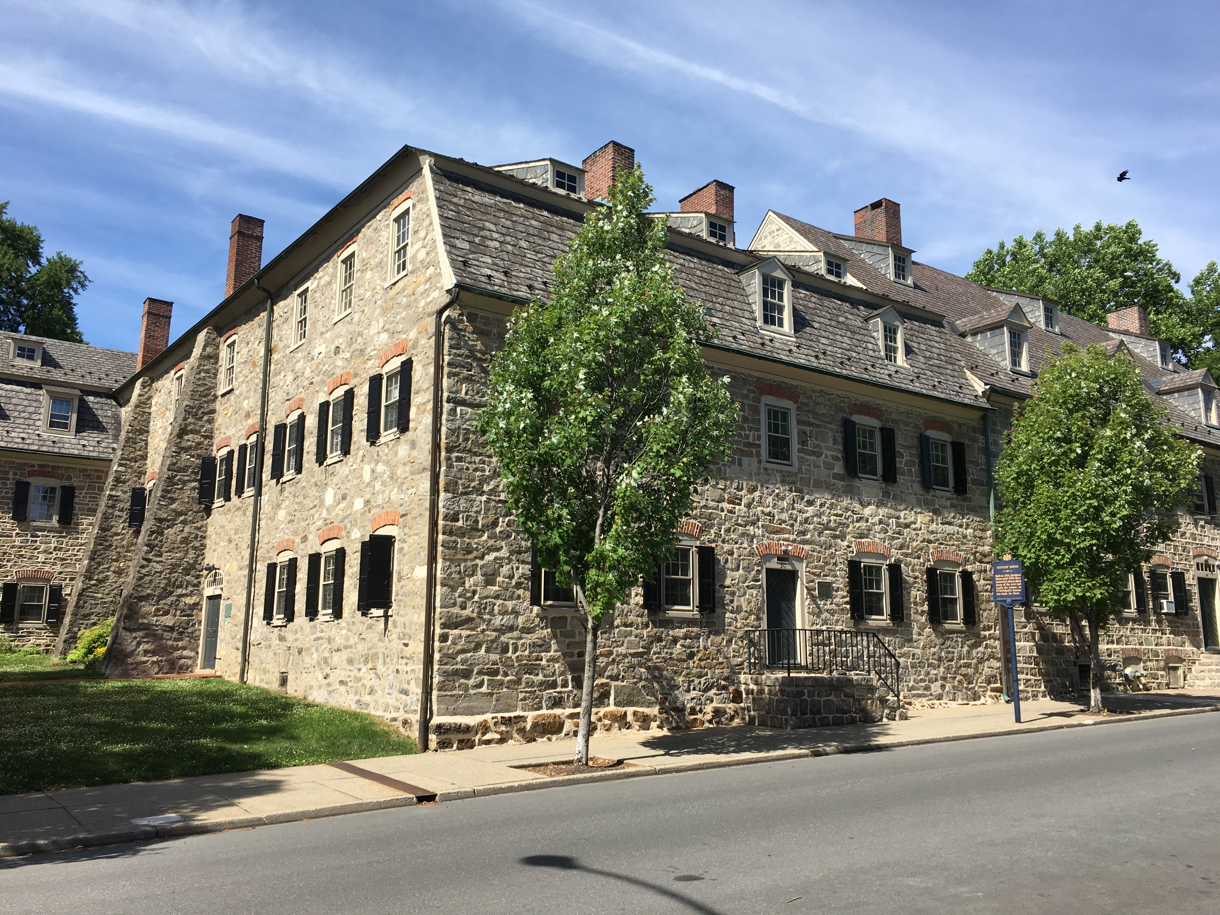 1744/1752 Section of the Single Sisters' House in Bethlehem, Pennsylvania